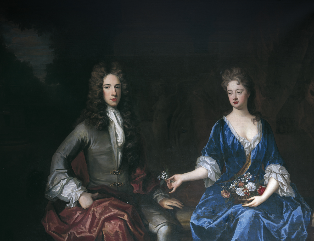 Portrait of Sussex gentleman Charles Eversfield and his wife by a follower of Godfrey Kneller, oil on canvas, 175.5 cm x 221.5 cm. Courtesy of the collection of Horsham Museum, Horsham, Sussex.